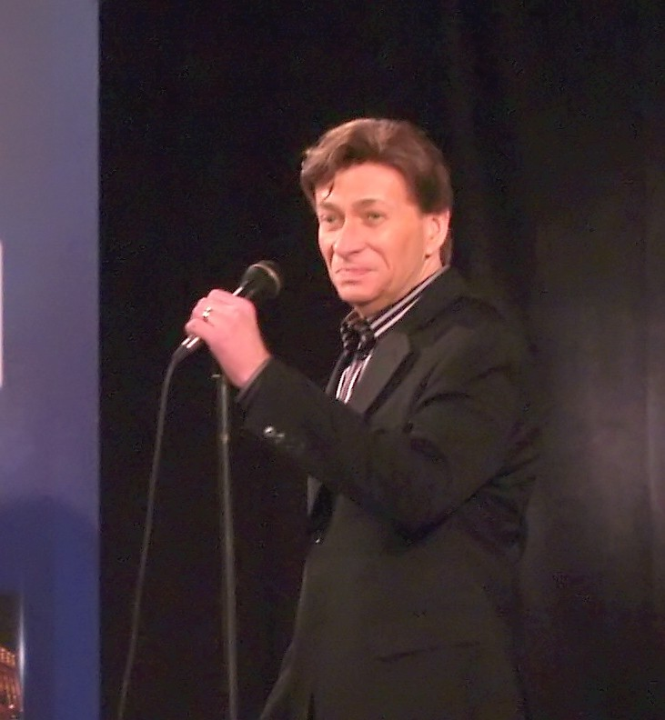 Bobby Caldwell is a great jazz vocalist.